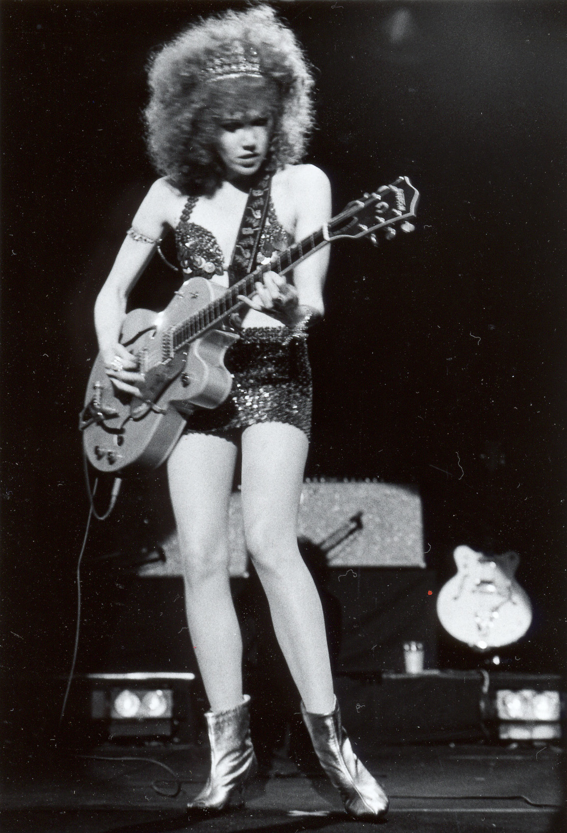 "Poison Ivy", guitarist with the Cramps 1991, Tokyo